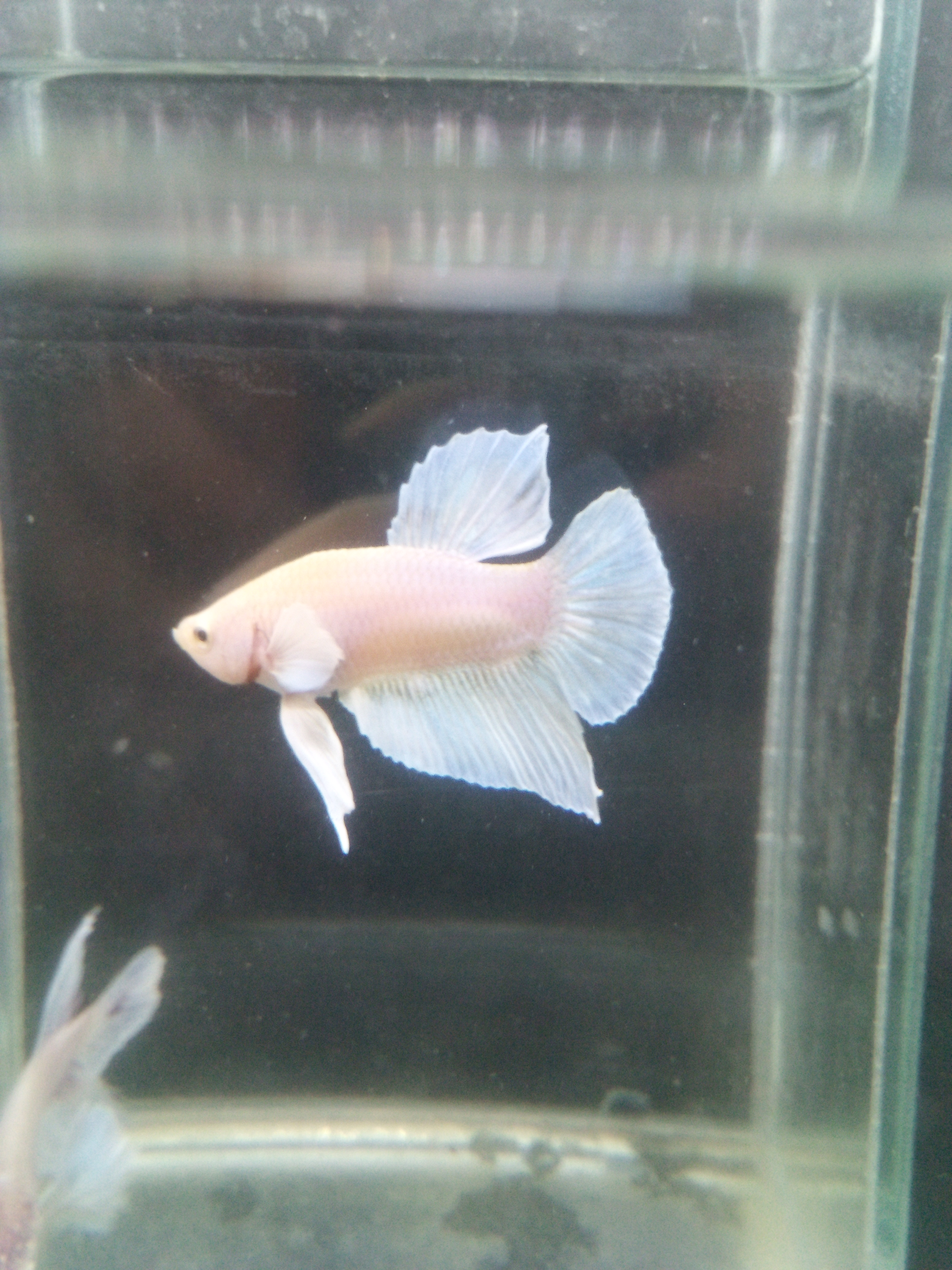 Cellophane BirEar Betta from Thailand